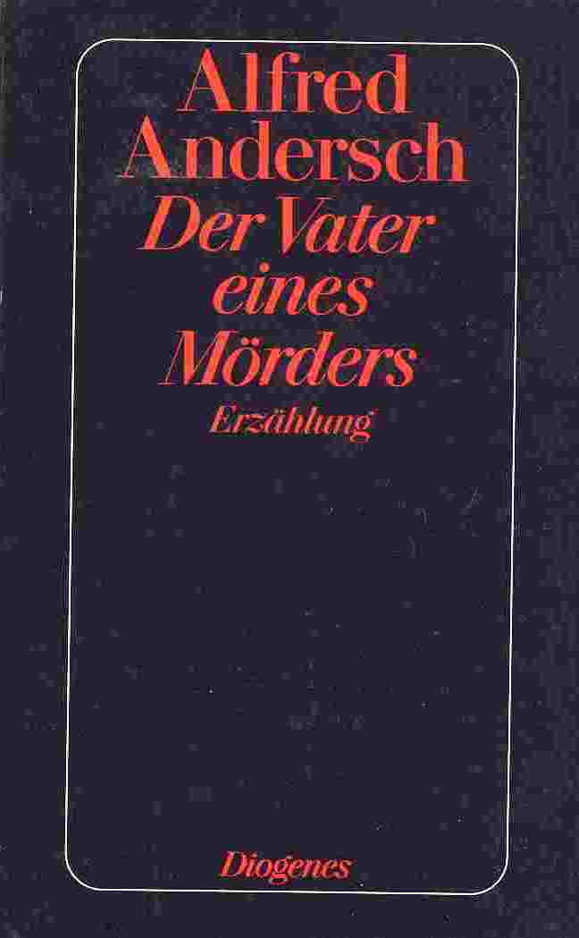 Book cover of Alfred Andersch "Der Vater eines Mörders" 1980